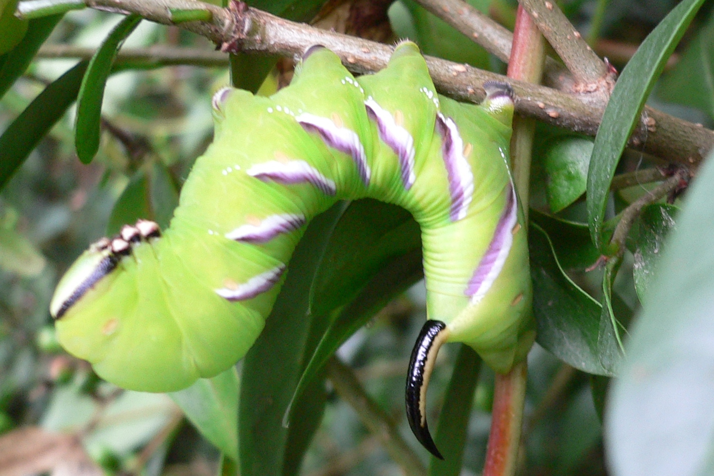 Berlin-Kreuzberg, Germany – Raupe des Ligusterschwärmers (Sphinx ligustri), an Liguster / caterpillar of Privet Hawk-moth (Sphinx ligustri) Bearbeitung / edits gedreht, beschnitten, geschärft / rotated, cropped, sharpened Lizenz / licence Please feel free to ask me on my user-page or via wikipedia e-mail (you have to be if you have questions concerning this image. This is a cropped/enhanced version of image